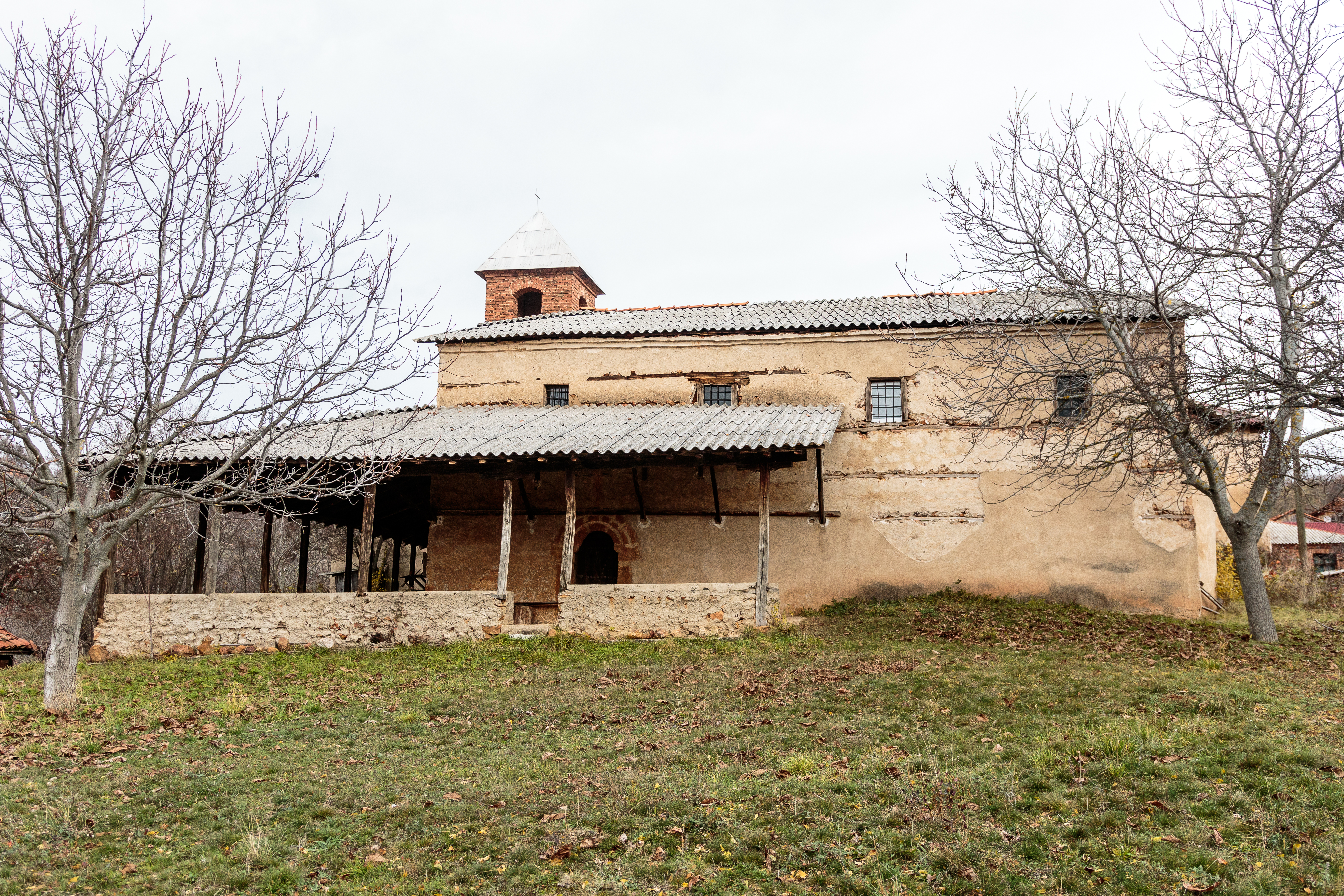 Church of Sts. Constantine and Helena in the village of Negrevo, Maleševija, Macedonia